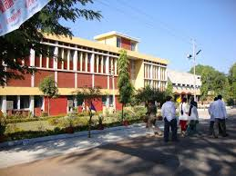 mlb jhansi